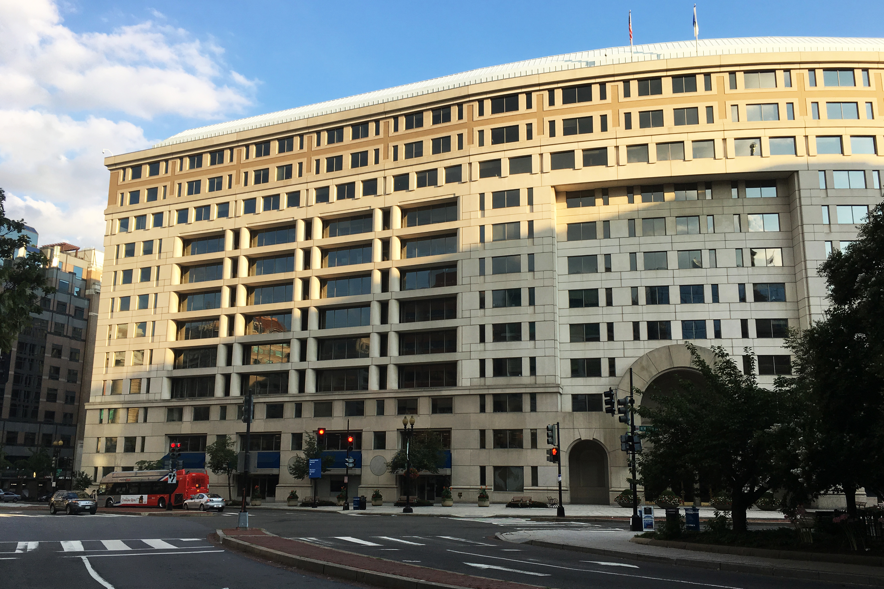 Inter-American Development Bank headquarters at Washington, D.C. 1300 New York Ave NW building.